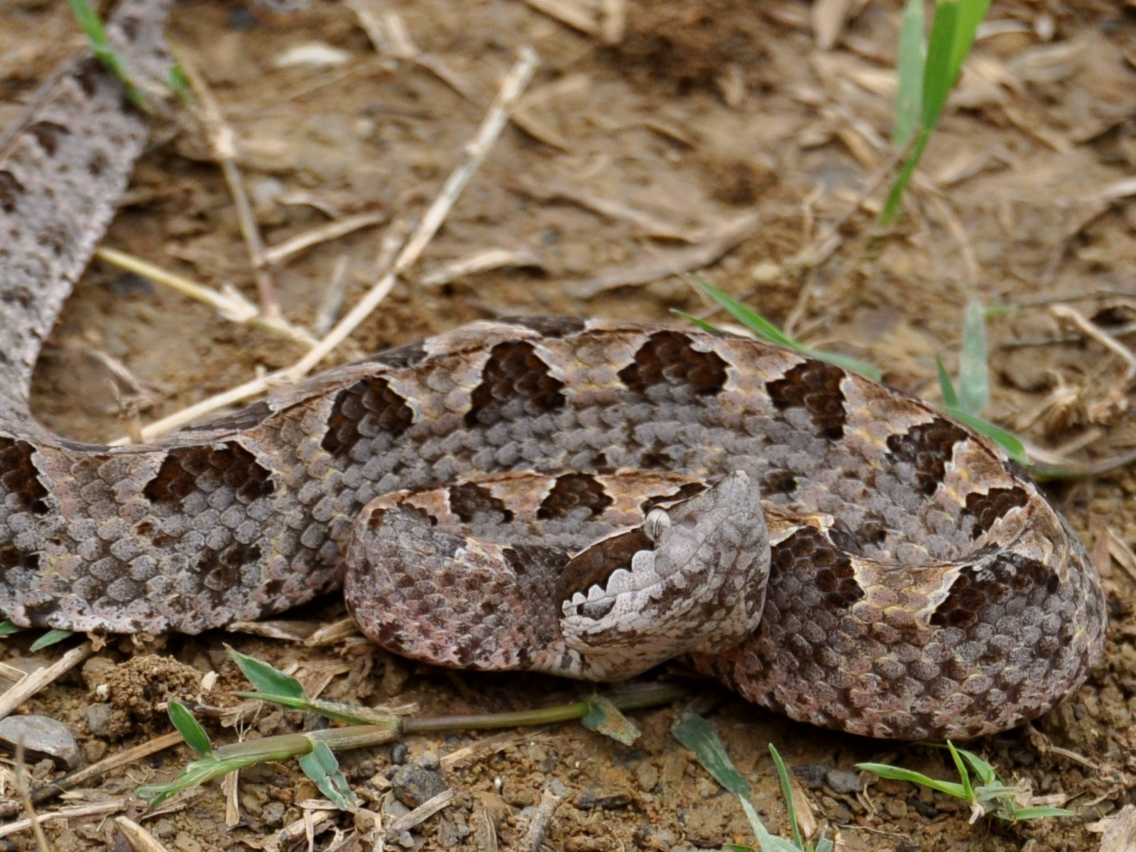 Young Malayan Pit Viper (Calloselasma rhodostoma); from Karawang, West Java. Ready-to-strike posture.